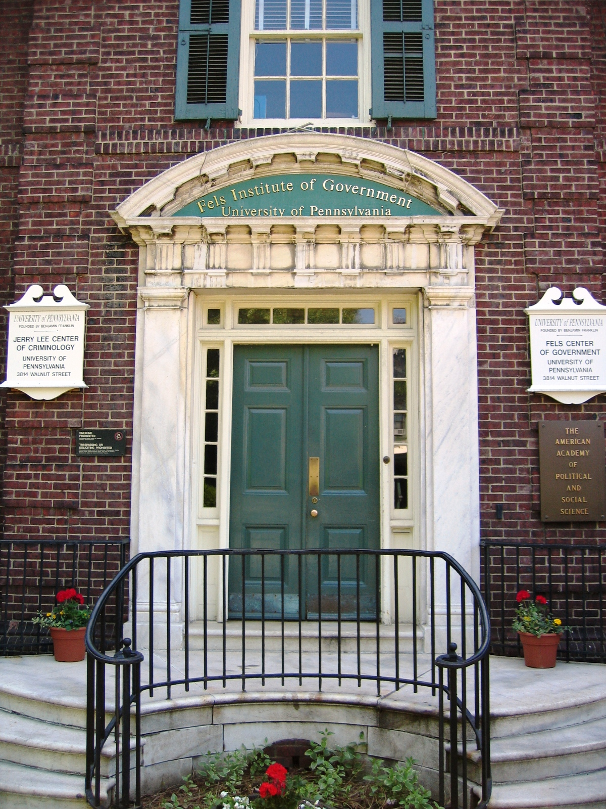 The entrance to the Fels Institute of Government at the University of Pennsylvania.